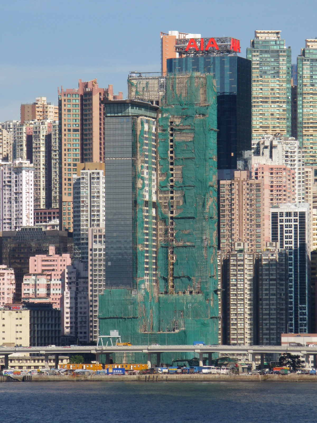 Harbour Grand Hong Kong